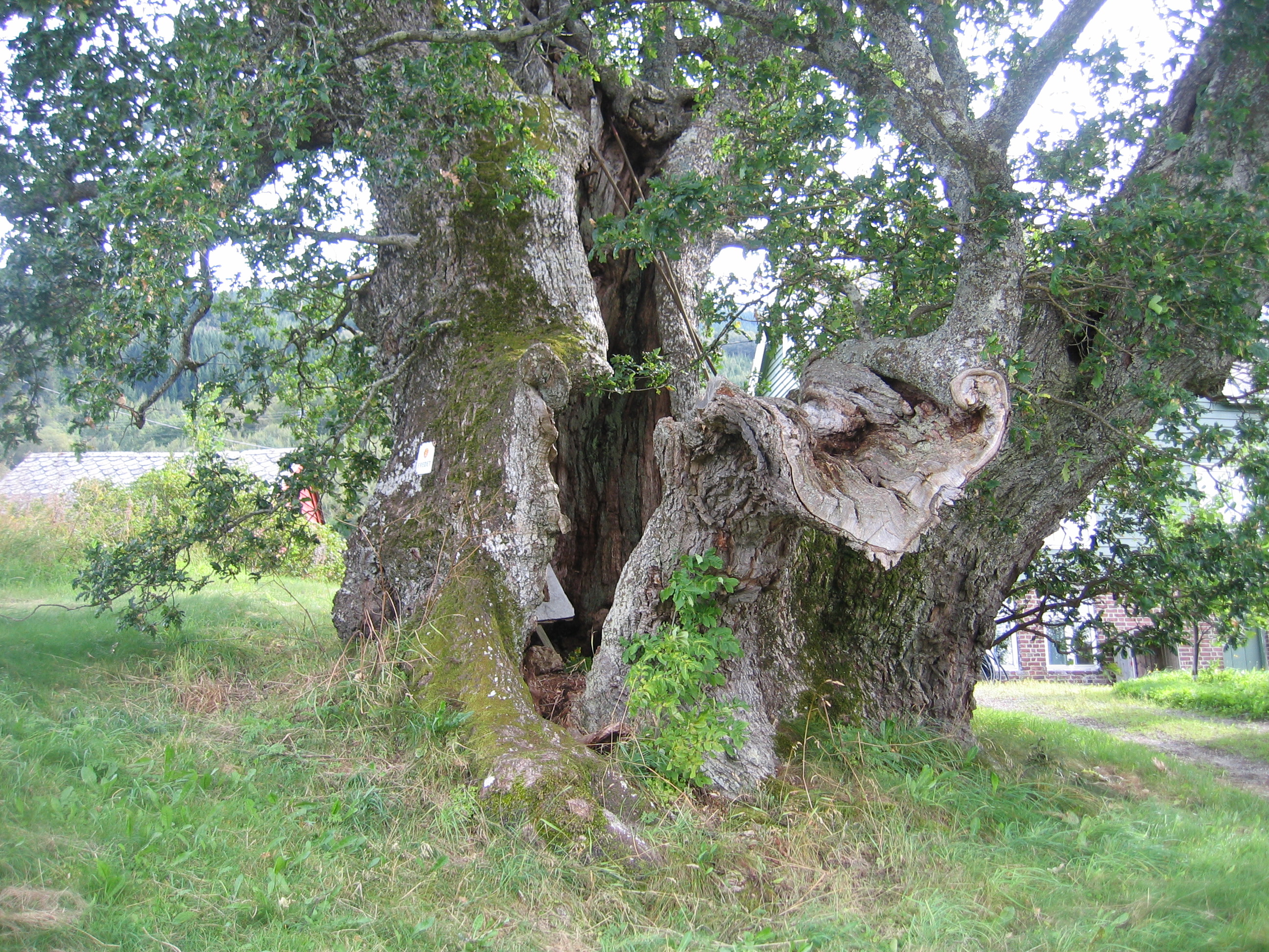 "Brureika", Lothe, Ullensvang, Norway, Photo: Olav Vindal